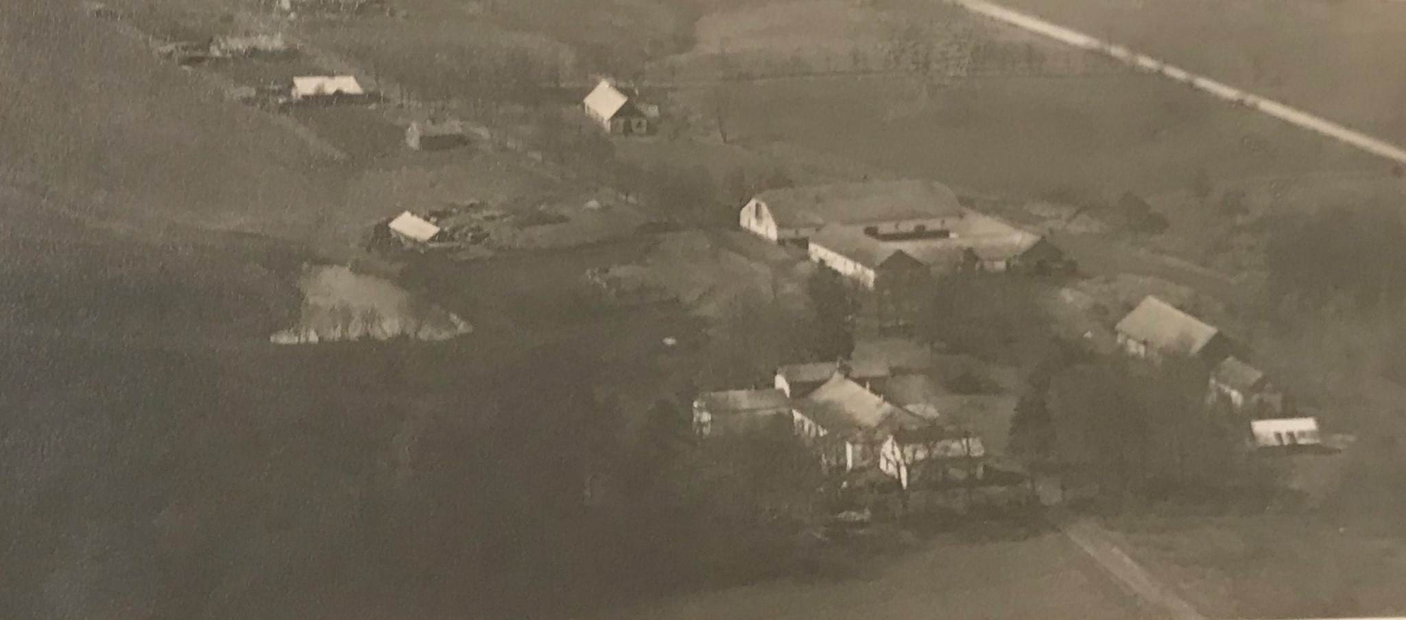 Plemborgas estate, Lithuania, aerial photography. Photo dated circa 1919, author unknown. Plemborgas manor was demolished circa 1945. These buildings do not exist at present day.